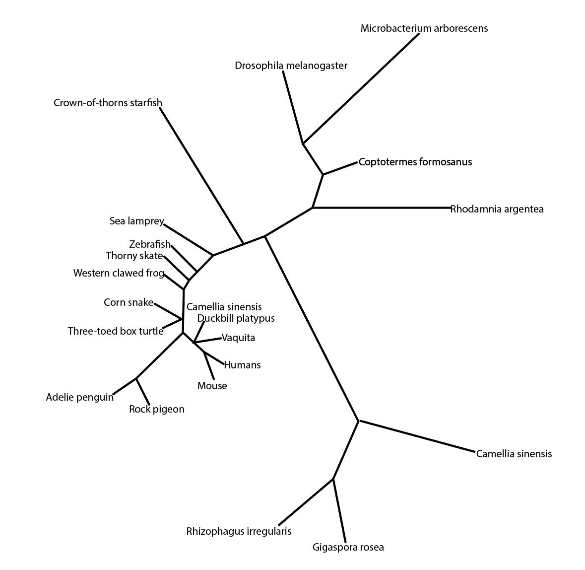 Phylo tree made based on the BZW2 sequence of various orthologs